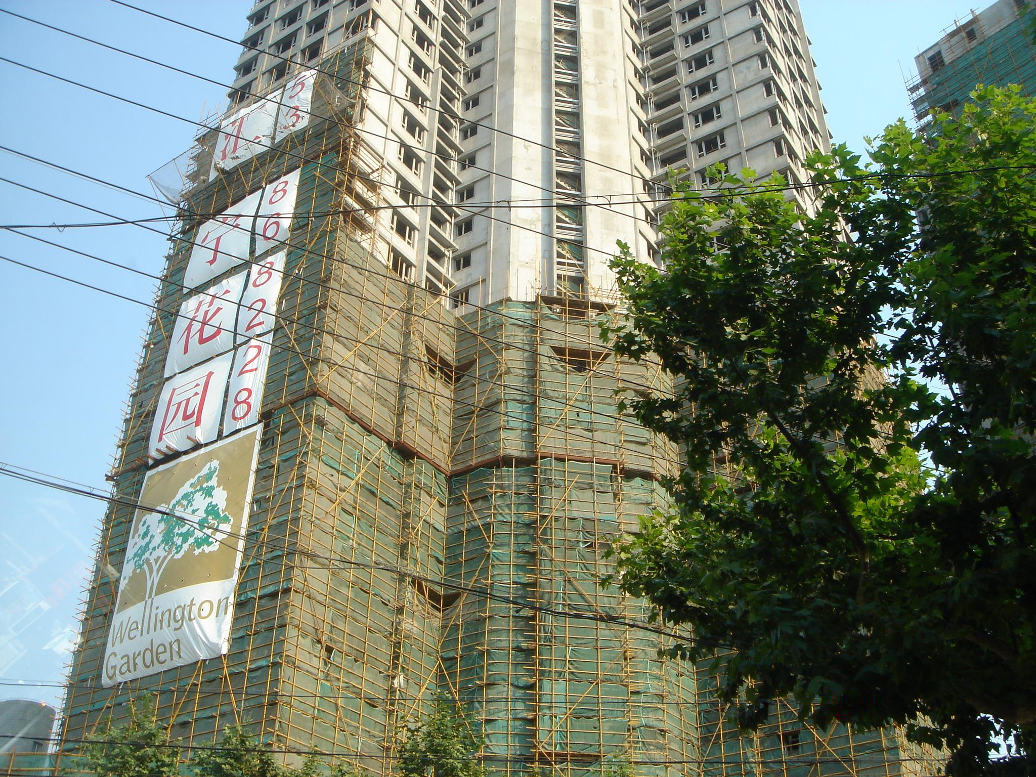 Bamboo scaffolding in Shanghai